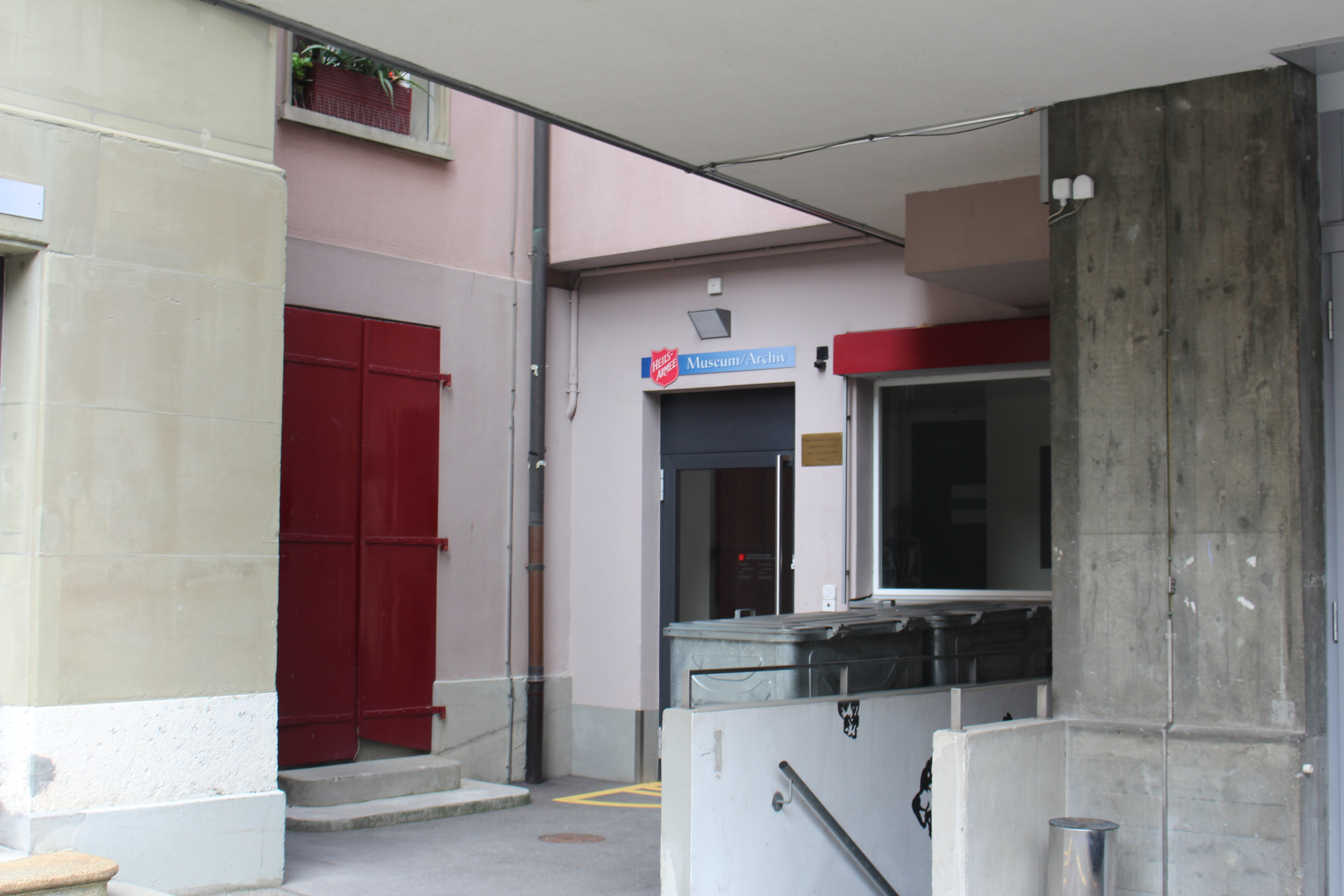 Heilsarmee-Museum / Musée Armée du Salut / Salvation Army Museum